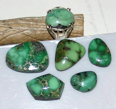 Source: Chris Ralph. This photo taken by Chris Ralph of Photographer and author: photo taken of variscite owned by author. I took this photo and freely place it in the public domain.